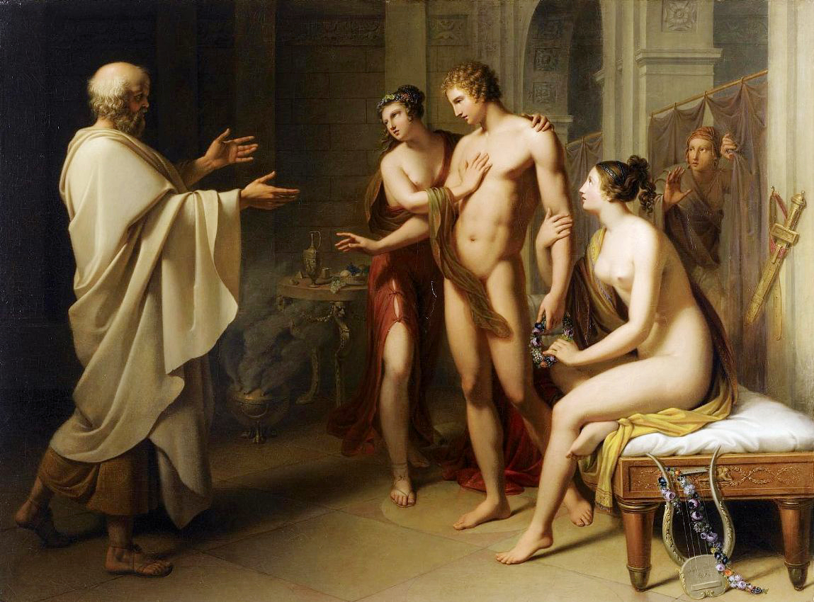 Socrates reproaching Alcibiades, Oil on canvas